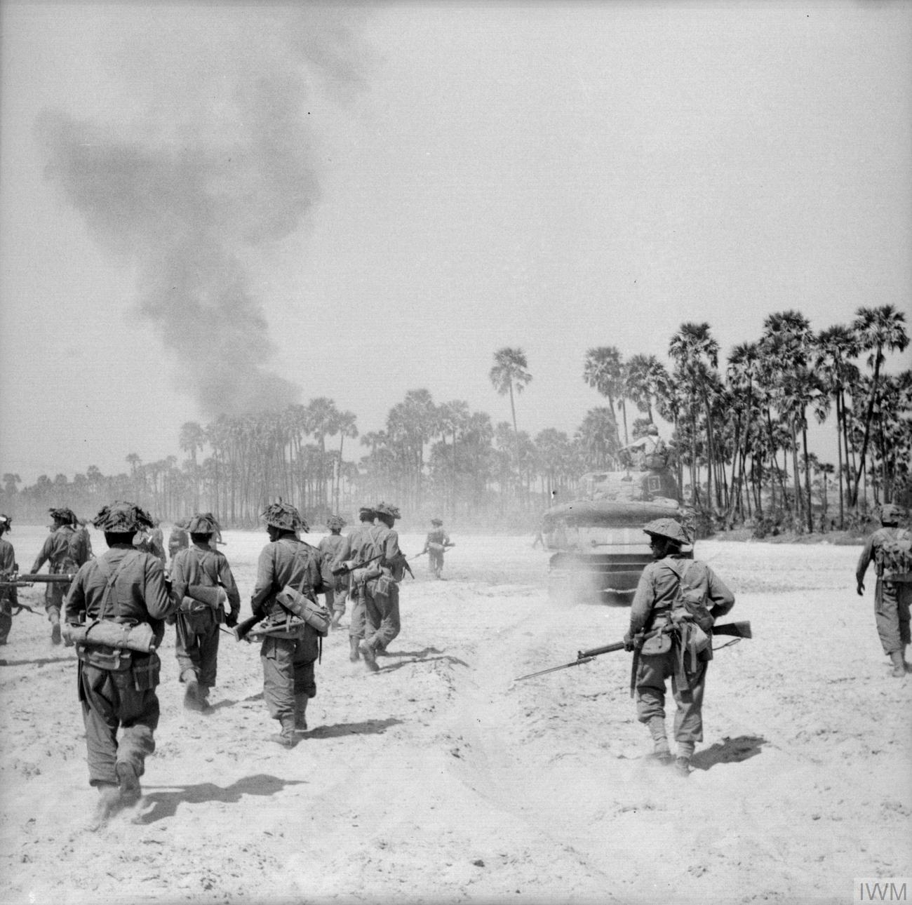 THE BRITISH ARMY IN BURMA 1945, Men of the 6/7th Rajputana Rifles advance behind Sherman tanks during the assault on Meiktila, 23 February 1945.